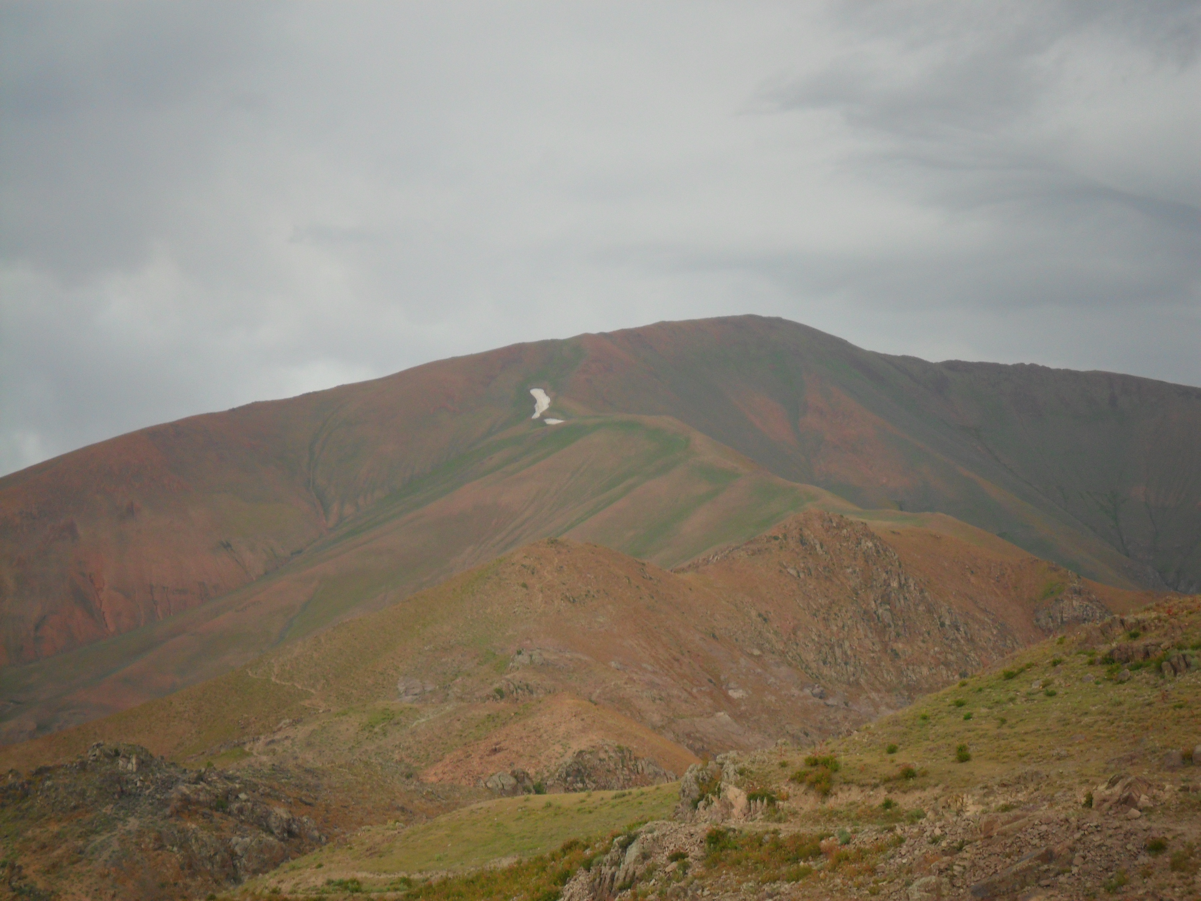 Kizilnura (uz: RedLight) peak. View from west